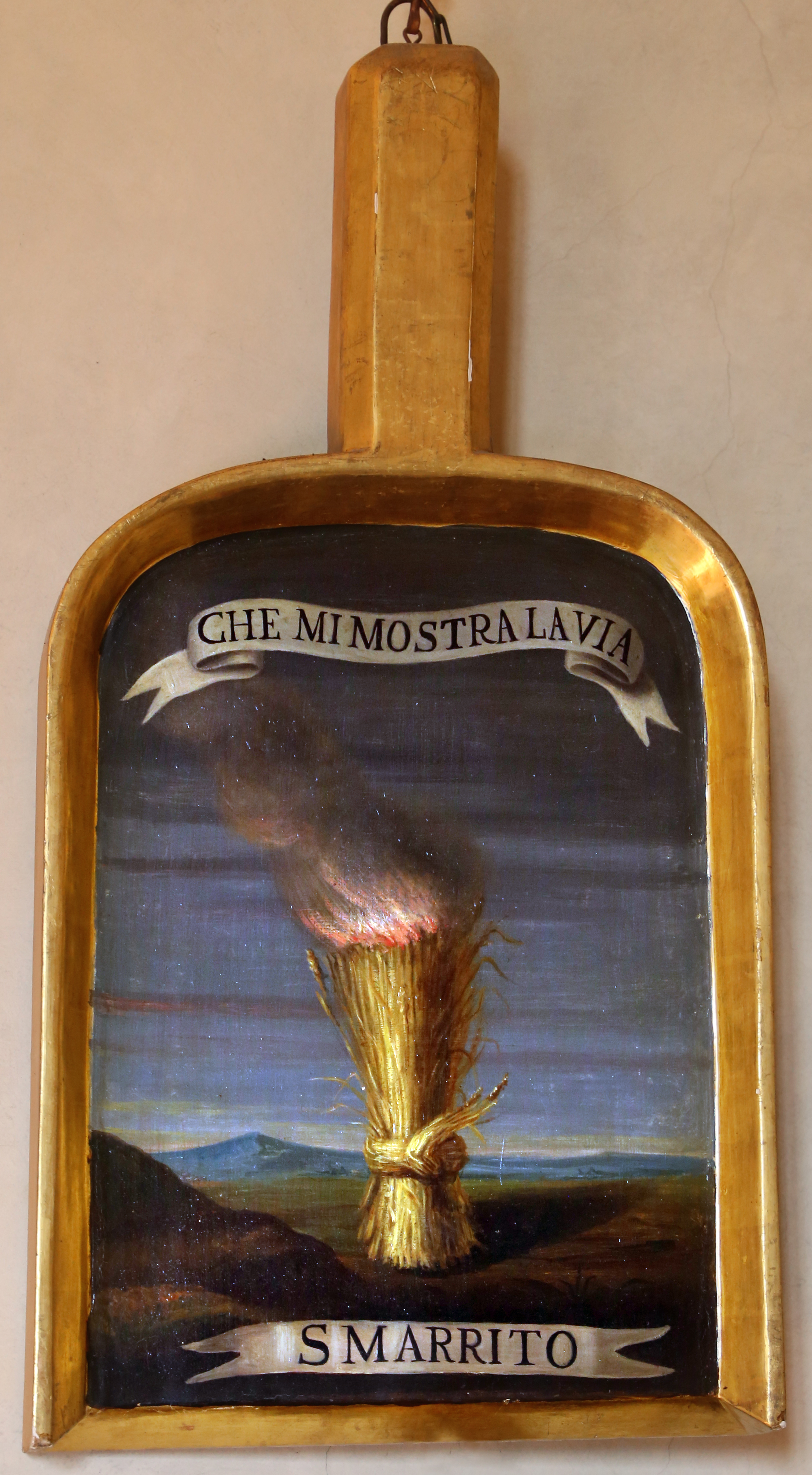 Shovels of Accademici della Crusca